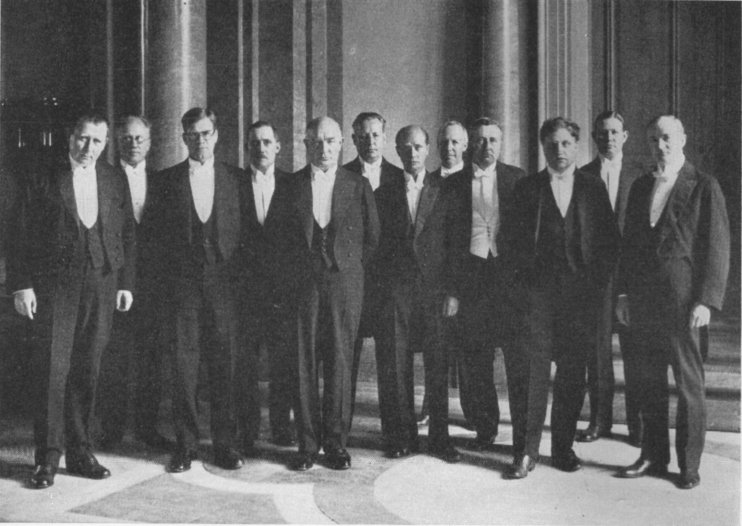 First cabinet of Per Albin Hansson 1932-1936